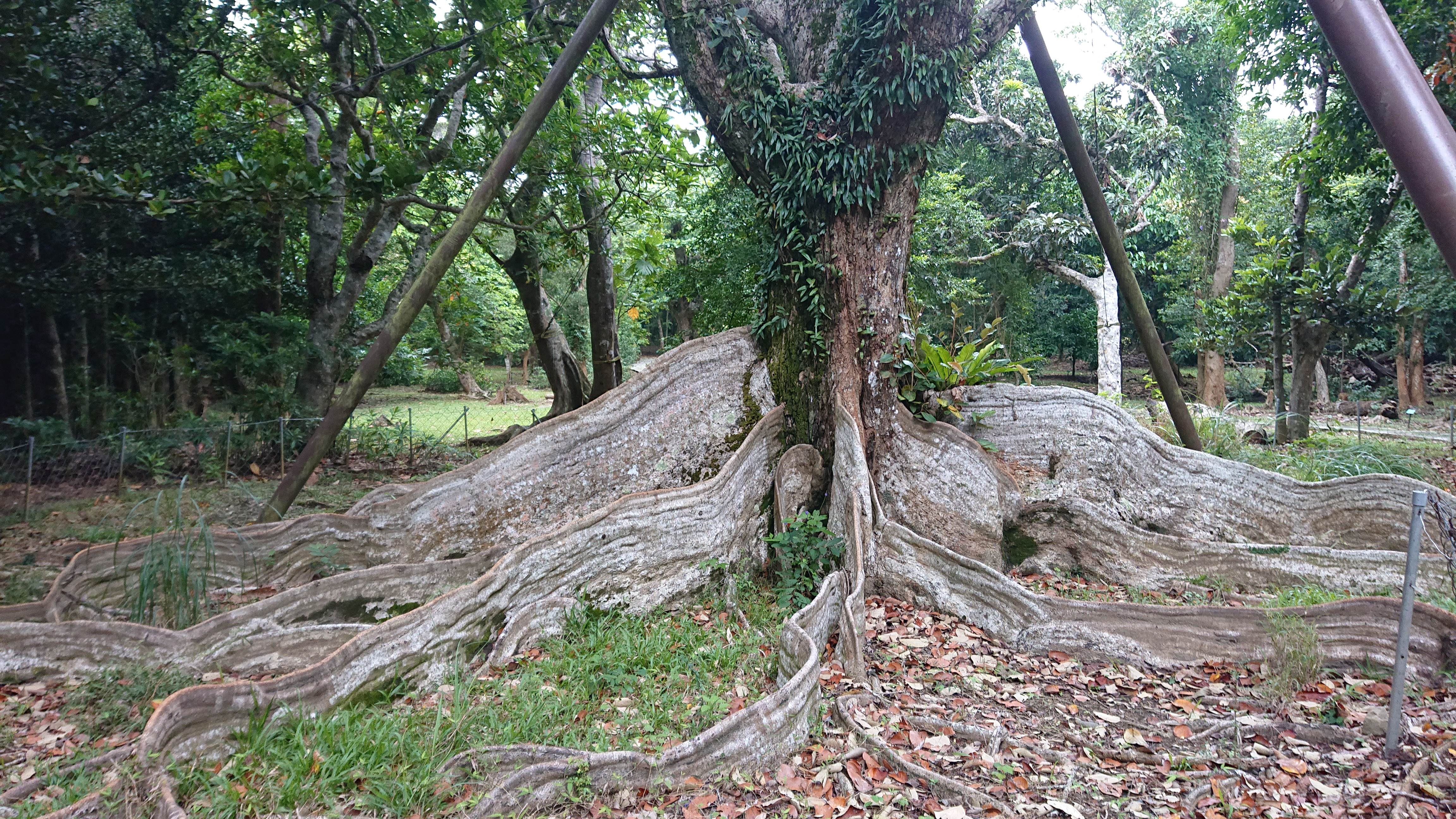 plank buttresses root in Kenting National Park